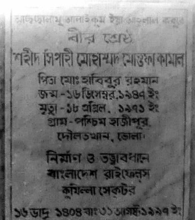 Image of the tombstone of Bir Sreshtho Mostafa Kamal, a war hero of Bangladesh